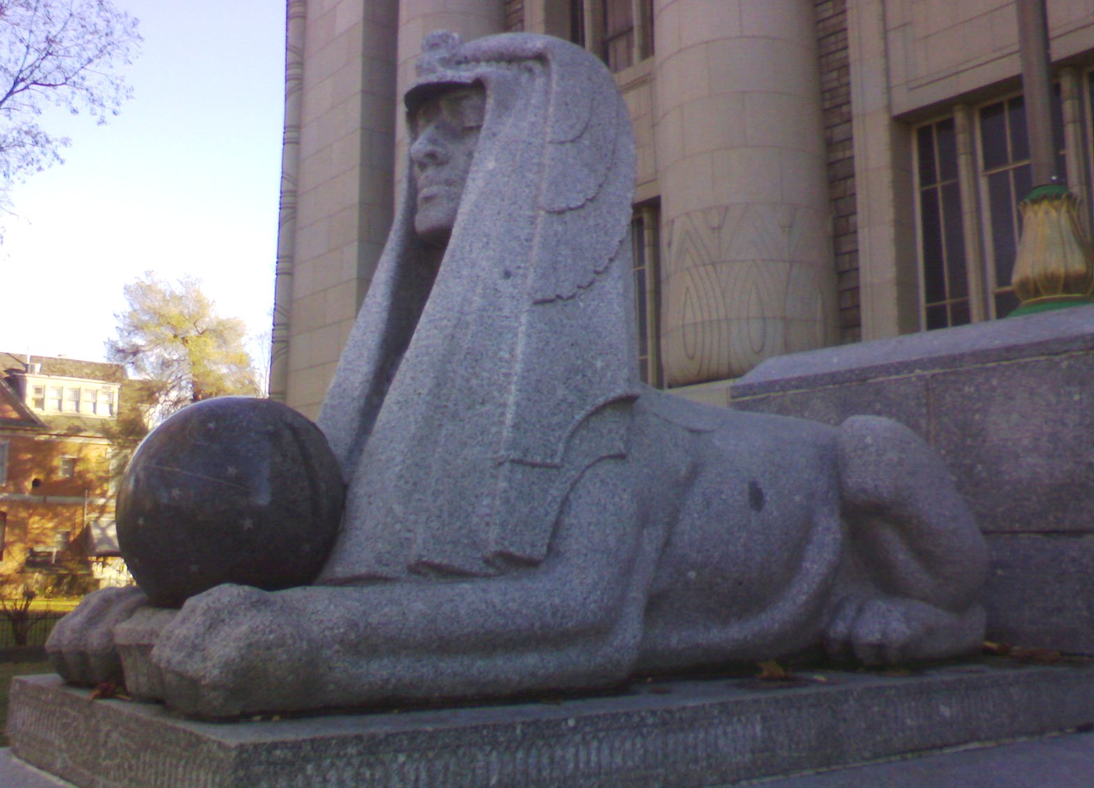 A sphinx at the Salt Lake Masonic Temple.